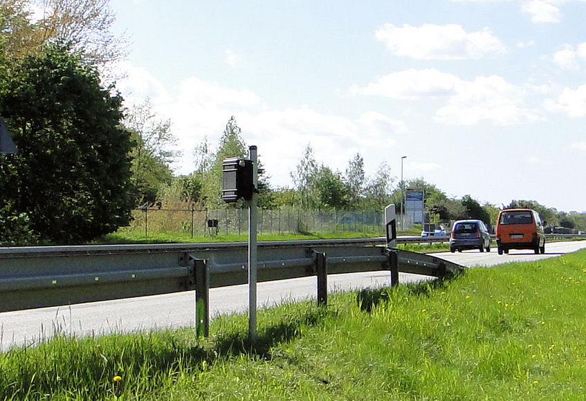 Electronic traffic counting with sensors at bypass road (B 106) in Schwerin, Mecklenburg-Vorpommern, Germany